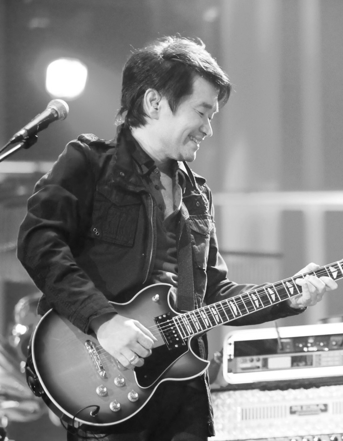 From The Innocent Reunite Concert